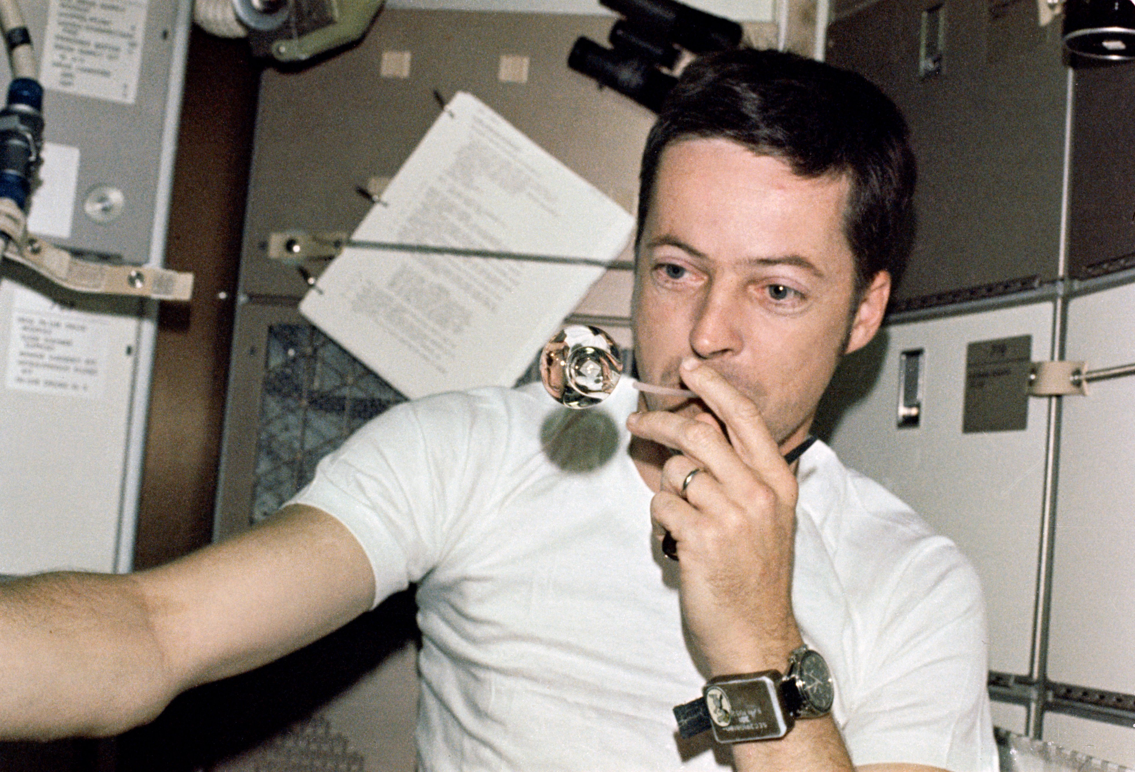 Skylab 2 Scientist-Astronaut Joseph P. Kerwin, Skylab 2 science pilot, forms a perfect sphere by blowing water droplets from a straw in zero gravity. He is in the crew quarters of the Skylab Orbital Workshop.